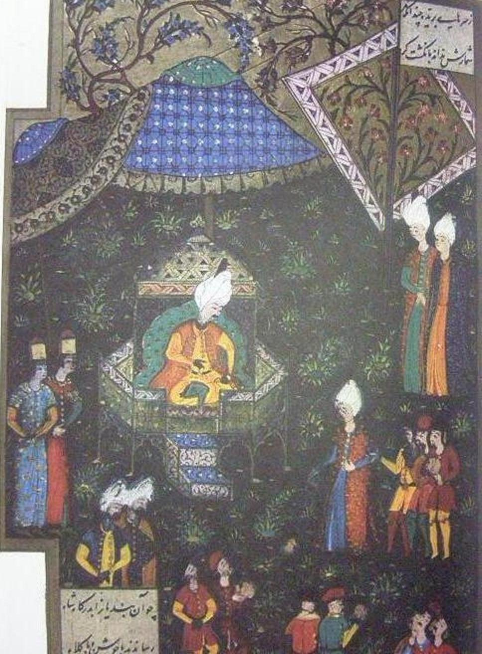 Suleiman I, Ottoman Sultan in his tent in Buda (1529). Ottoman miniature.